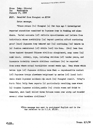 The attached paper (text of the article written by Timperley) of the telegram from Tokyo (Foreign Minister Kōki Hirota) to Washington (Embassy of Japan in the United States of America) on the article written by Harold John Timperley, intercepted, deciphered by American intelligence on February 1, 1938. Later published by NARA (US National Archives and Records Administration) at September, 1994.